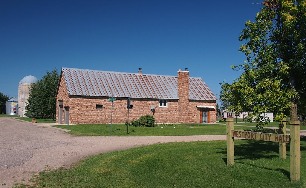 View north-northeast from Livingstone and Abercrombie Streets, Westport, Minnesota, United States